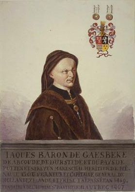 Portrait of James of Abcoude, Baron of Gaasbeek (+1459)